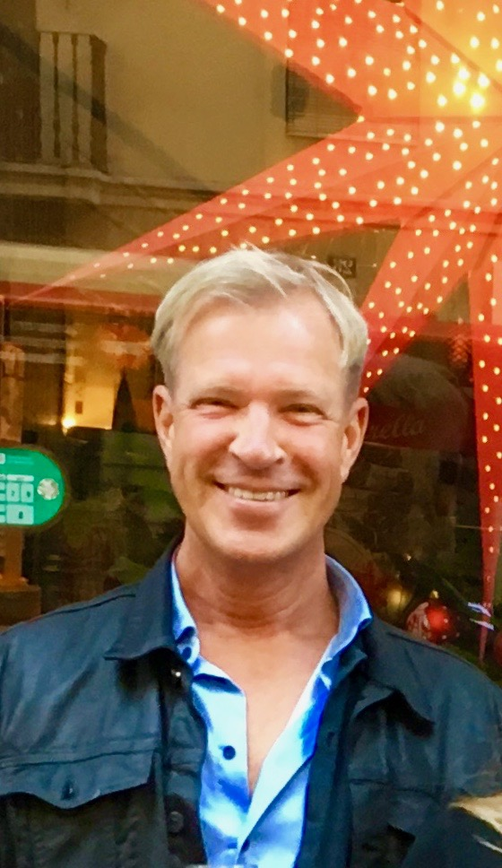 Calle Norlén, Swedish writer, in Barcelona 2017.